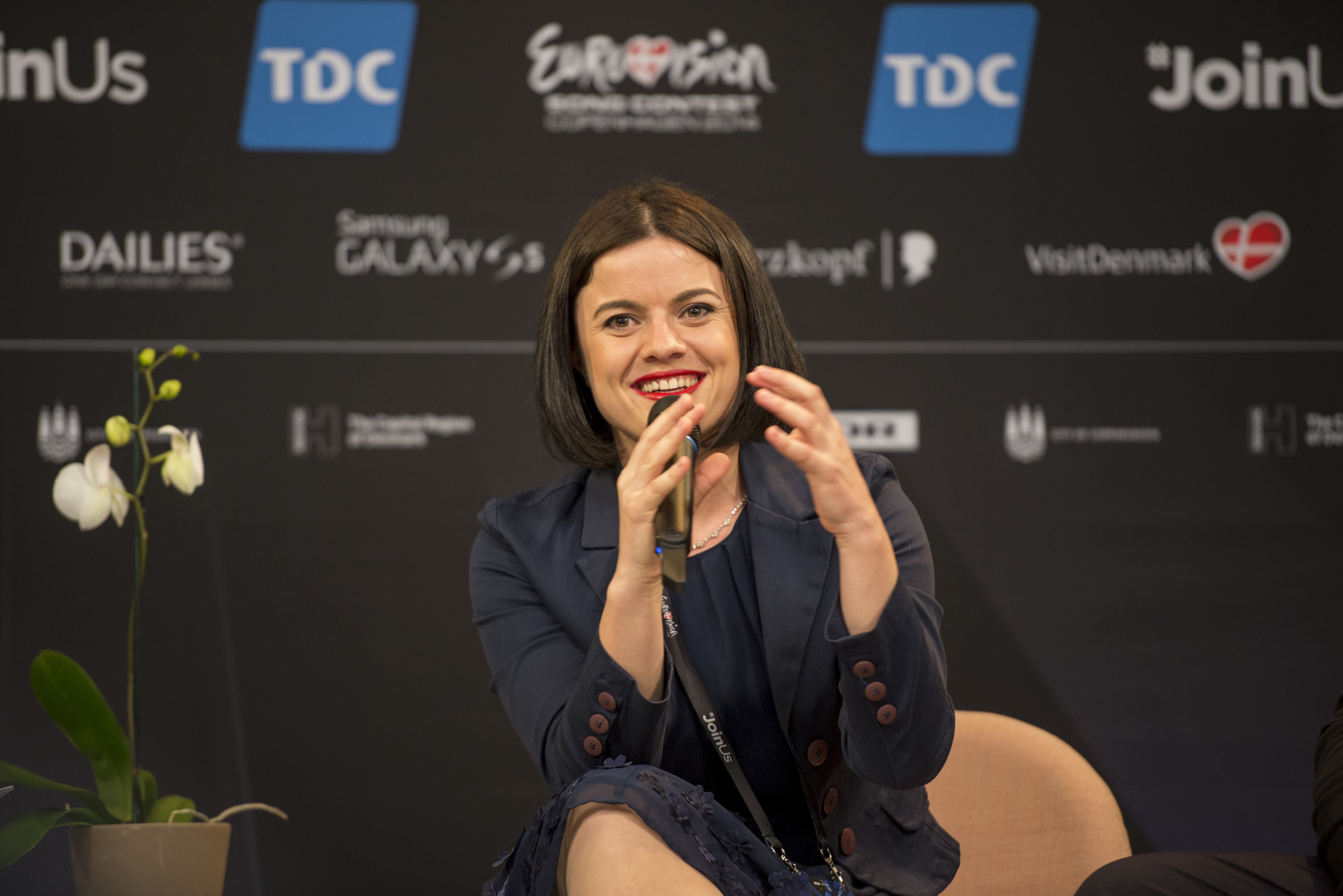 Herciana Matmuja at a Meet & Greet during the Eurovision Song Contest 2014 Copenhagen. (Help translate this text)